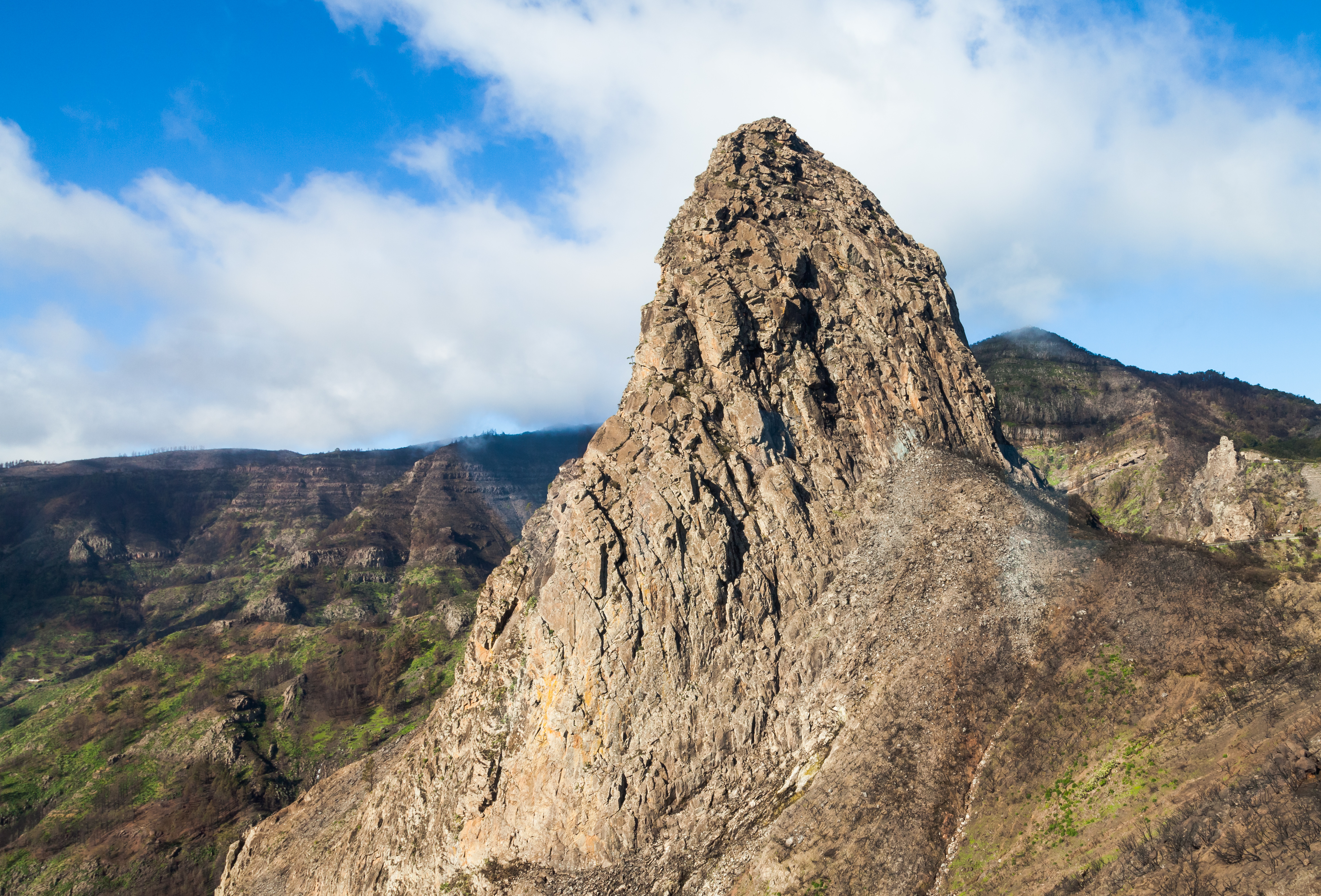 Roque Agando (Agando rock) belongs to the Garajonay National Park (UNESCO World Heritage Site) and is not far from San Sebastián de la Gomera, capital of the island of La Gomera, Canary Islands, Spain. This 1251 m high volcanic plug is one of the landmarks of the island and has a prominence of 180 m (220 m from the south side).